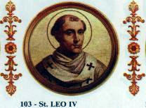 Reproduction of the portrait of :Pope Saint Leo IV in the Basilica of Saint Paul Outside ther Walls, Rome